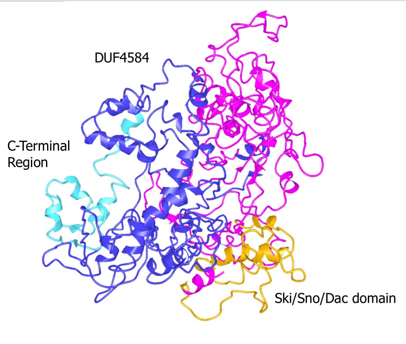 A predicted 3D structure of the human protein Skida1. The Ski/Sno/Dac domain is colored gold. The DUF4584 is colored dark blue, and the C-terminal region (amino acids 844-908) (which is also part of DUF4584) is colored light blue. The rest of the protein is pink.